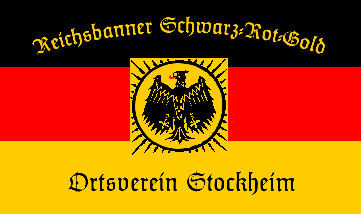 flag of the Reichsbanner Schwarz-Rot-Gold, chapter Stockheim